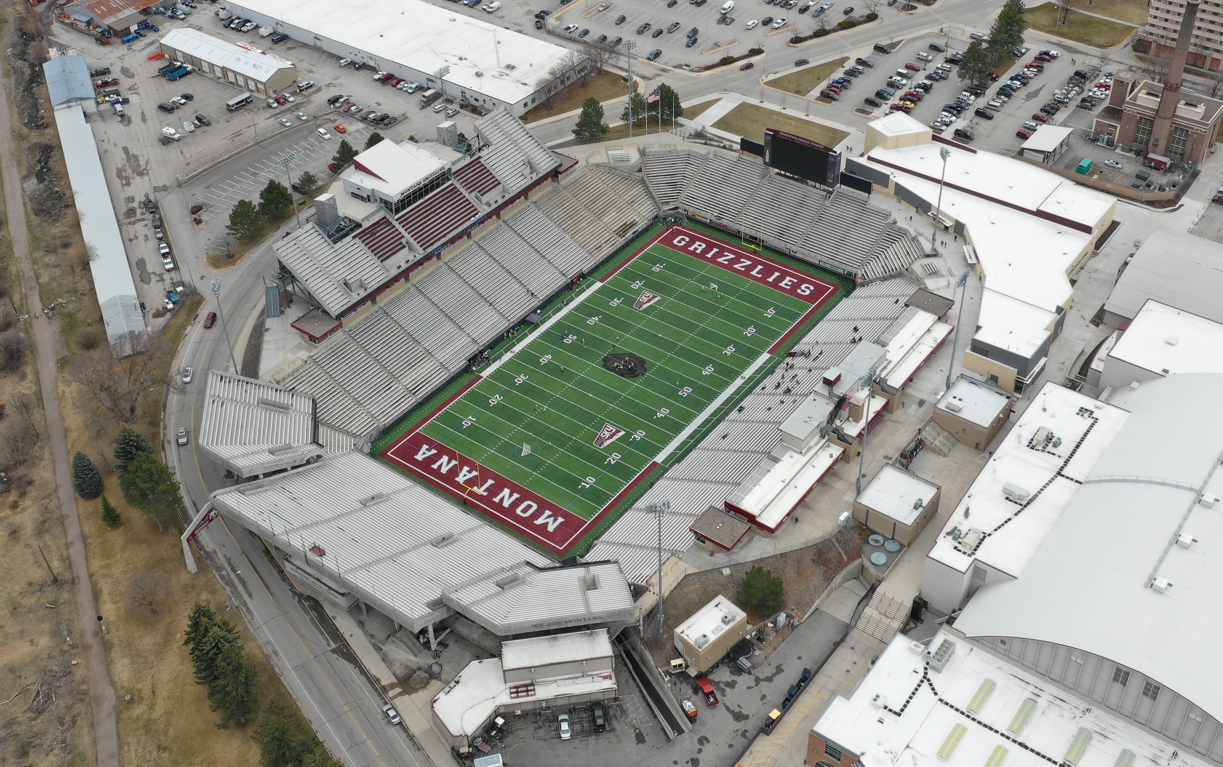 Aerial view of Washington–Grizzly Stadium.